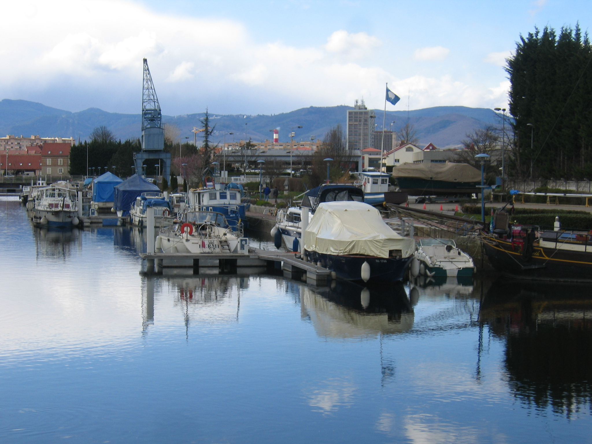 The marina of Colmar (Haut-Rhin, France).